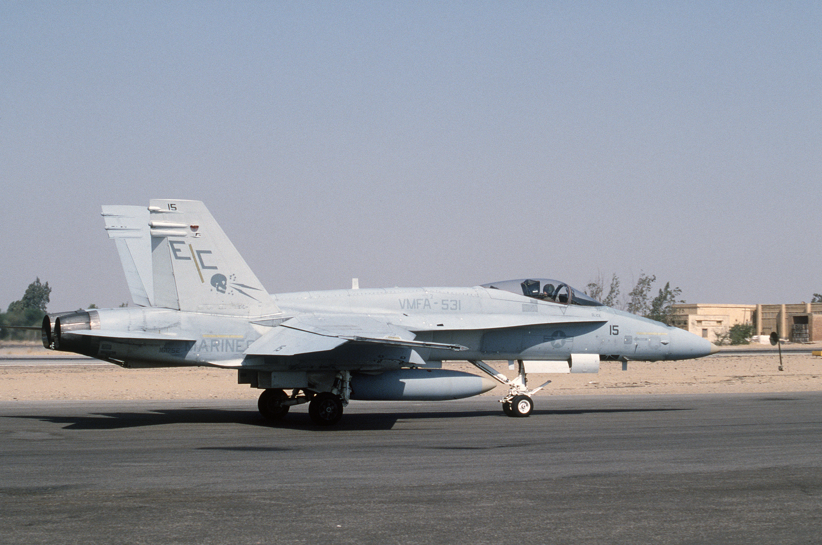 A McDonnell Douglas F/A-18A Hornet (BuNo 161752) from U.S. Marine Corps fighter-bomber squadron VMFA-531 Grey Ghosts taxis on the flight line during the multinational exercise “Bright Star '85” at Cairo West air base, Egypt, on 1 August 1985.